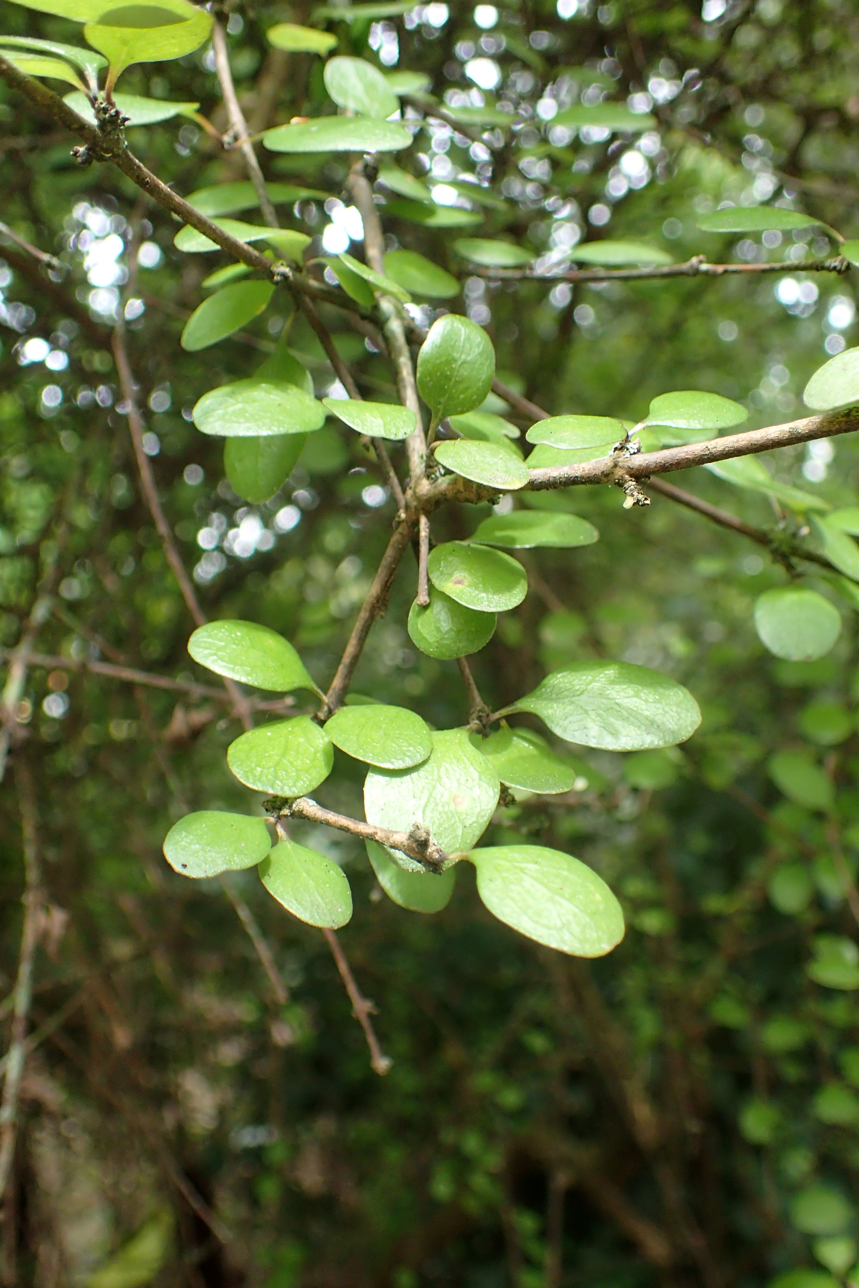 Coprosma crassifolia in Auckland Botanic Gardens